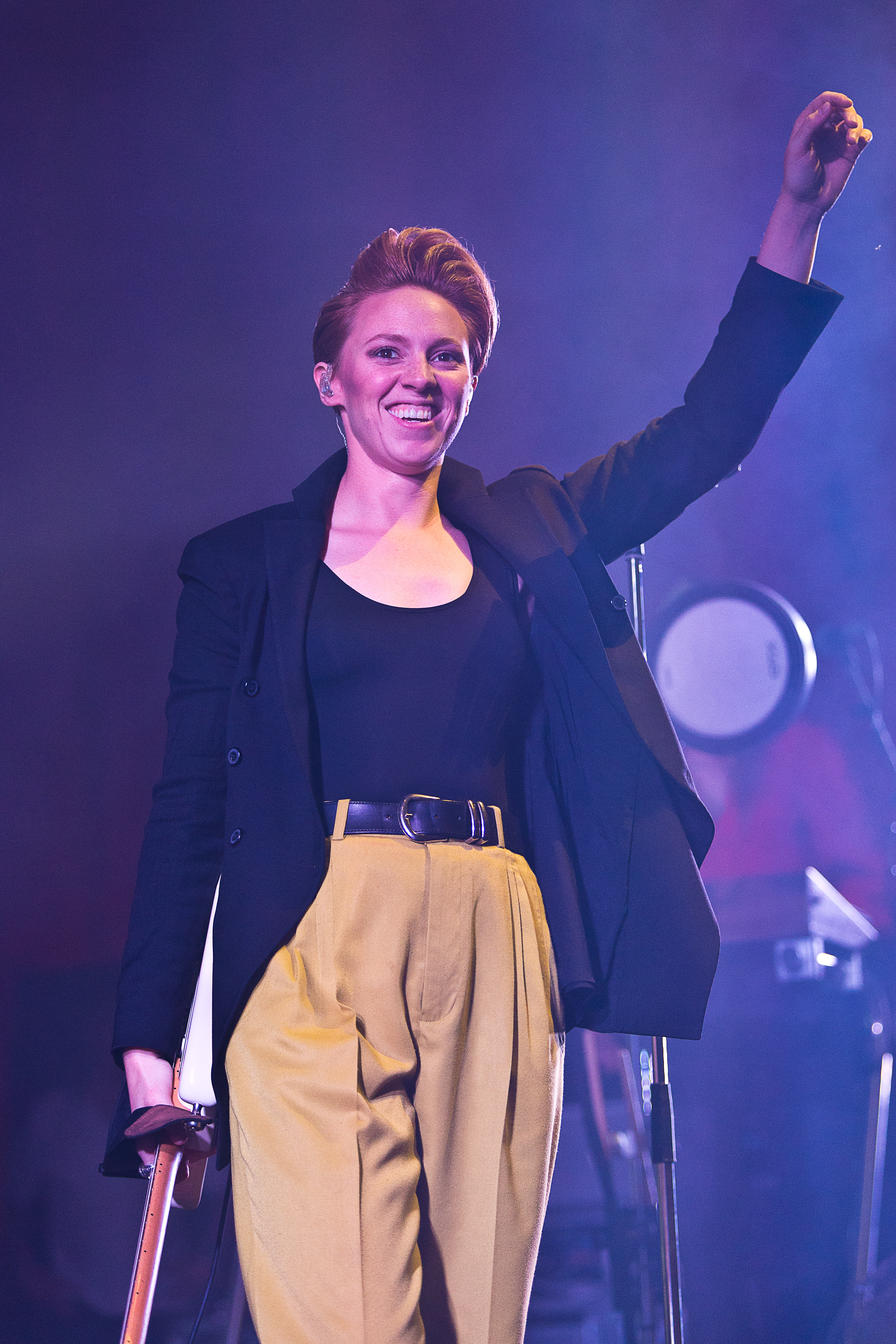 The British musician La Roux at the Melt! 2015 in Ferropolis/Germany.